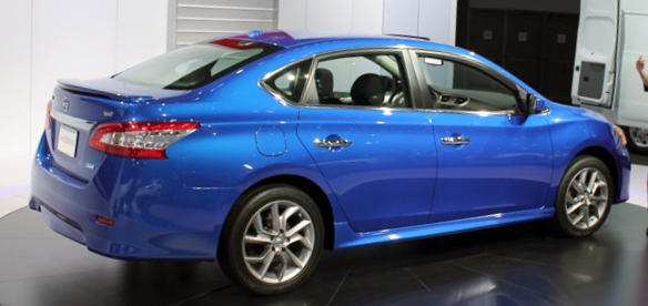 LA Auto Show 2012